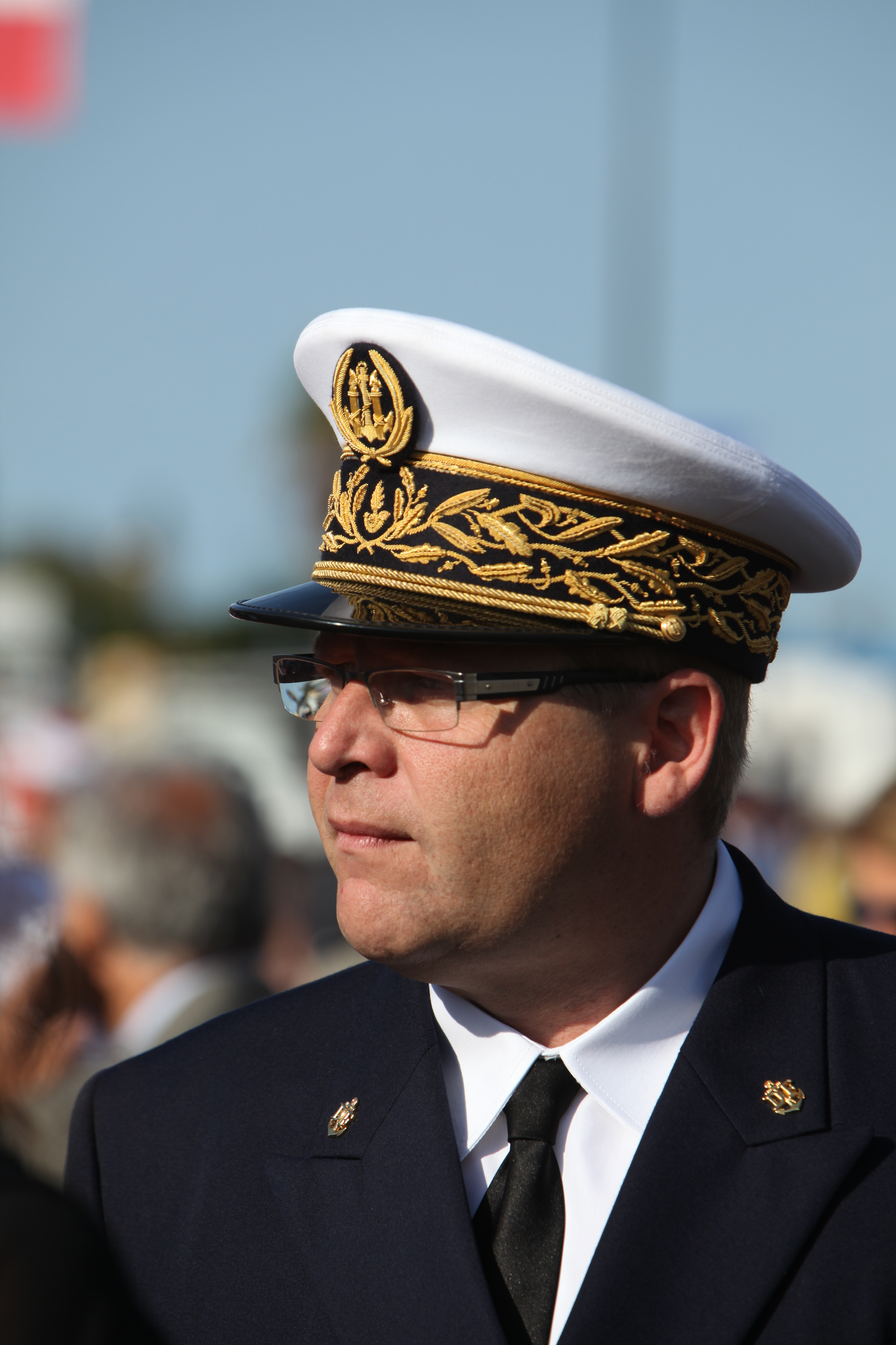 French general official.